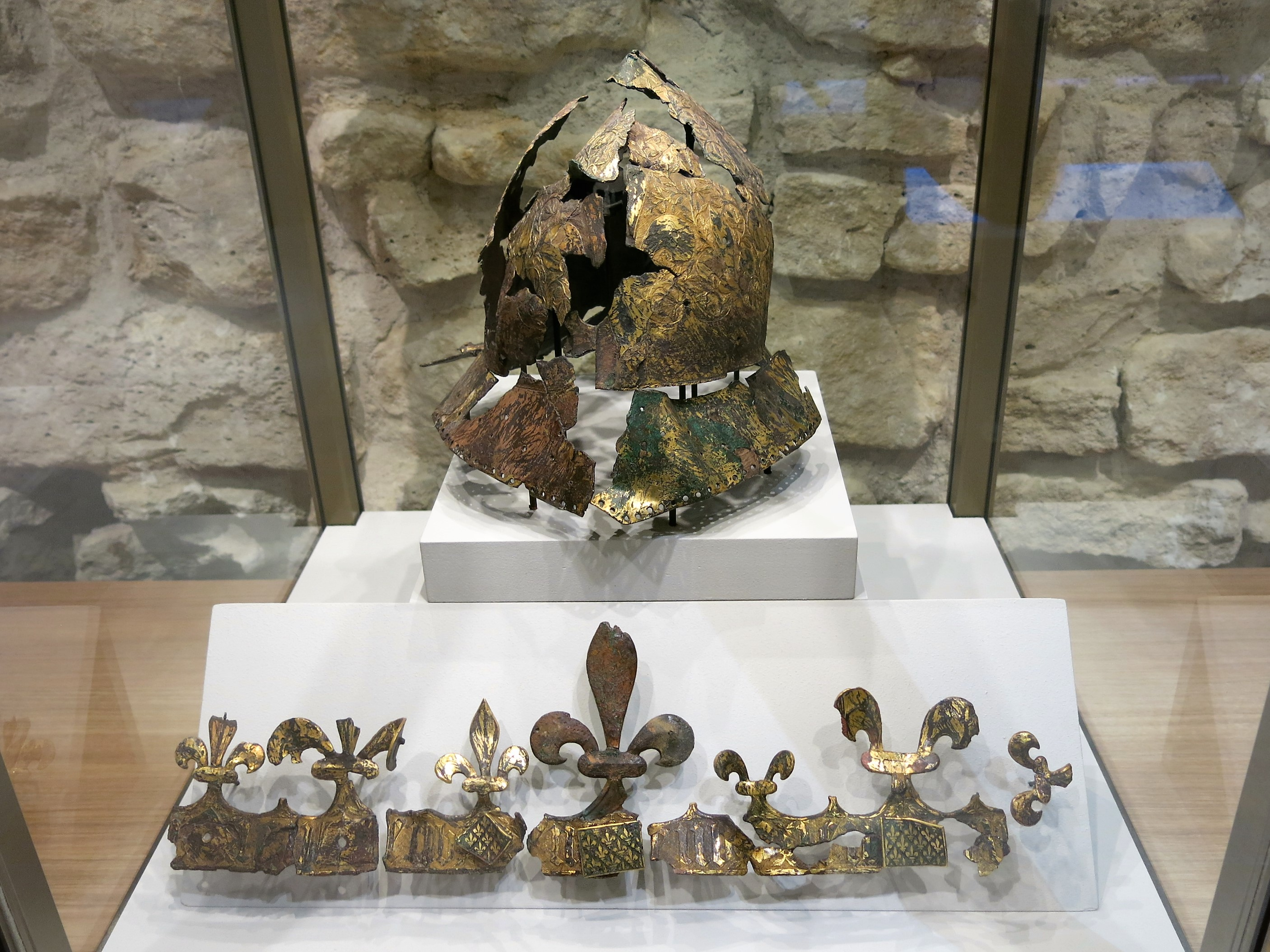 Original pieces of the helmet gilded of the king Charles VI. It was found during the excavations of the Louvre castle for the creation of the Pyramid and exhibited in the medieval Louvre (Paris, France).